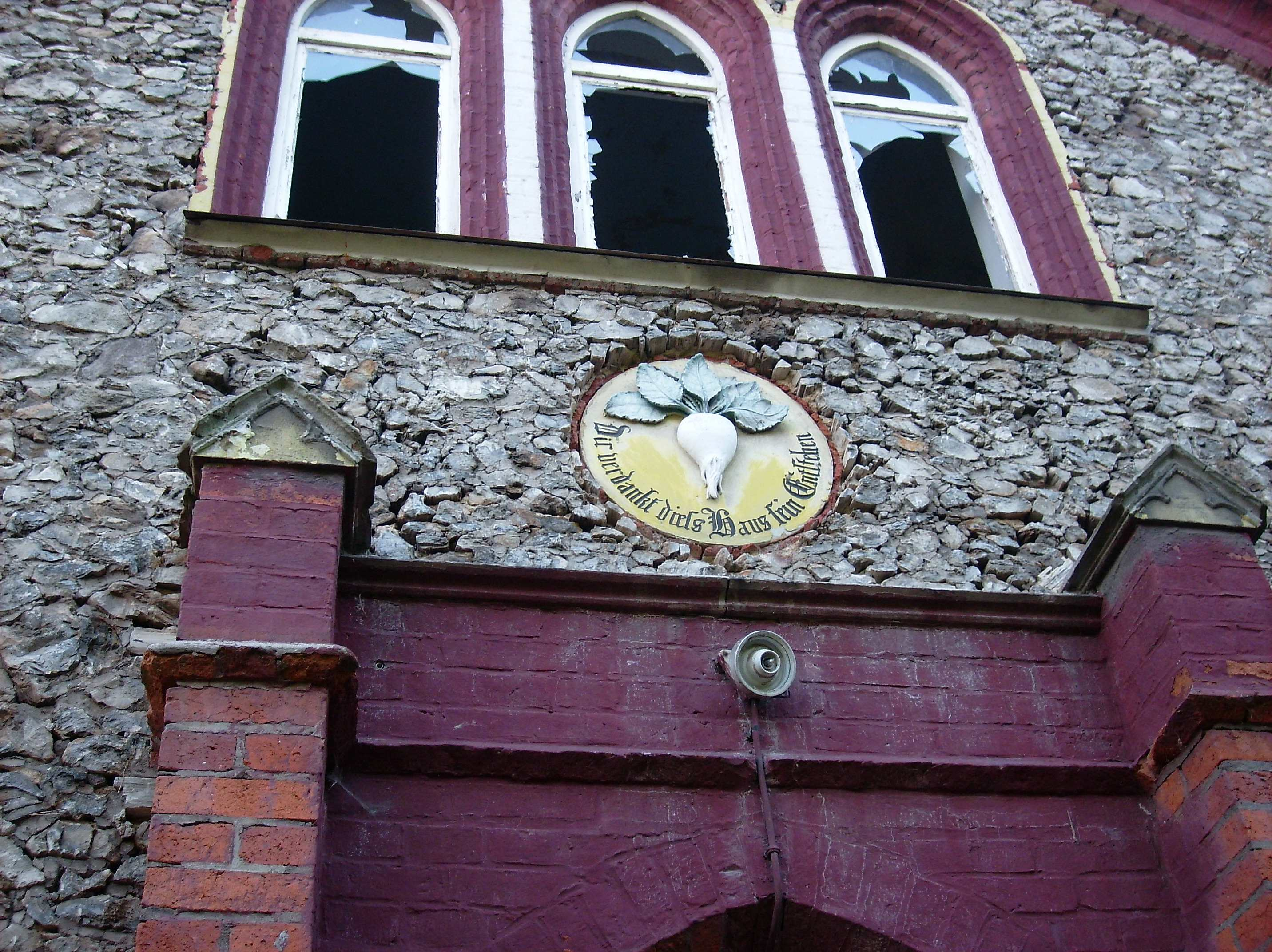 Detail of Knauer's Villa (so-called Gröbers Castle), Kabelsketal, district of Saalekreis, Saxony-Anhalt